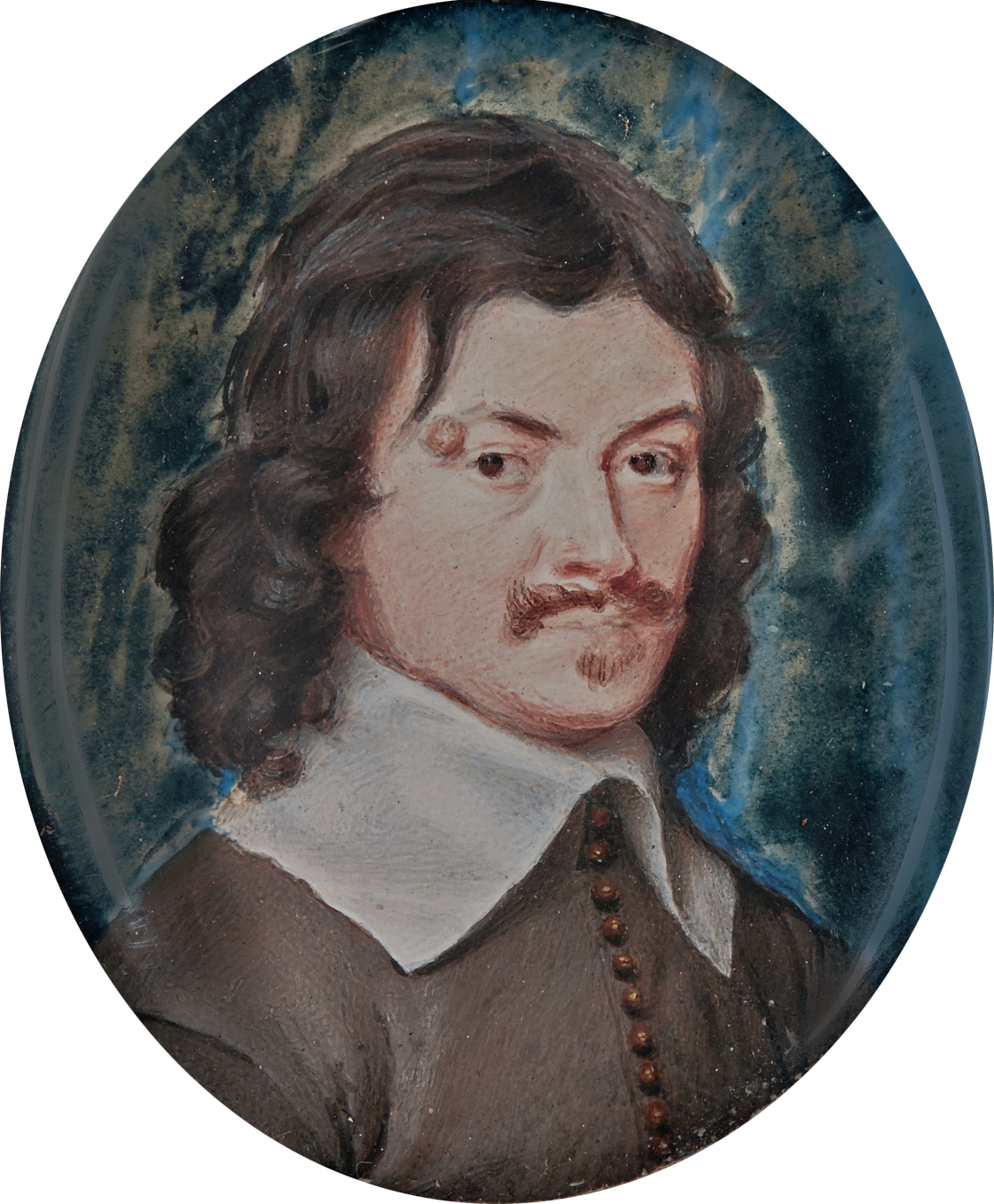 William Fairfax (1609-1644) watercolour and bodycolour on vellum 4.5 x 3.7 cm signed b.l.: SC